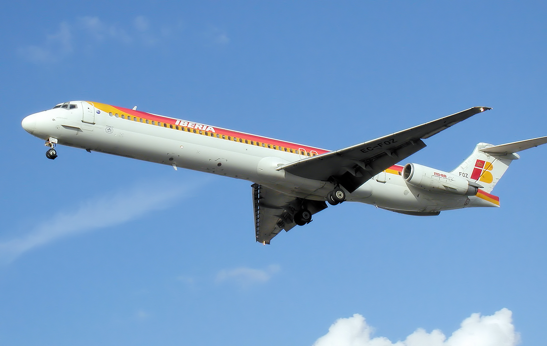 Iberia McDonnell Douglas MD-88 (EC-FOZ) landing at London Heathrow Airport.